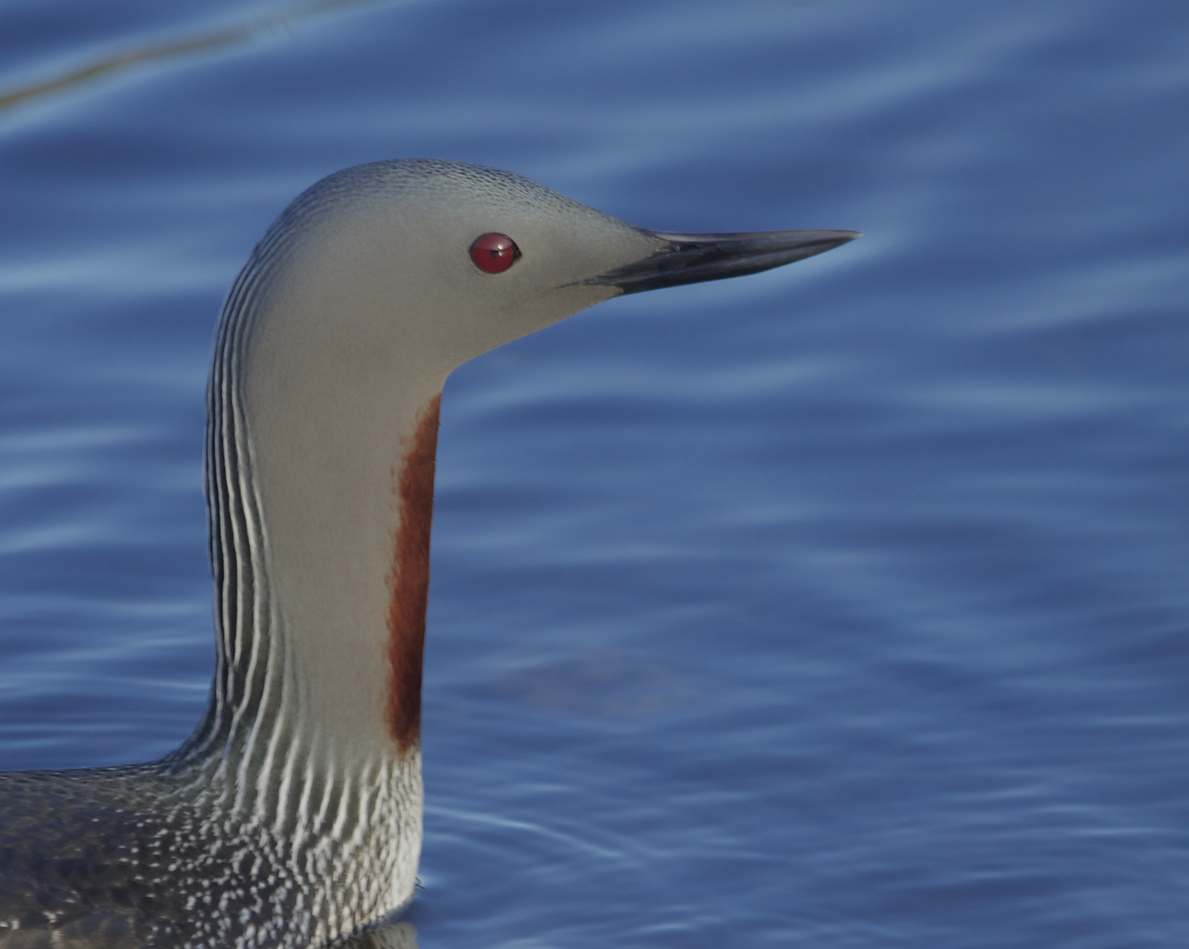 This is the "common" loon in Nome. Lots of pairs in lots of ponds. You do get to see a few Yellow-billed Loon, Arctic Loon and Pacific Loon, but these guys are everywhere...